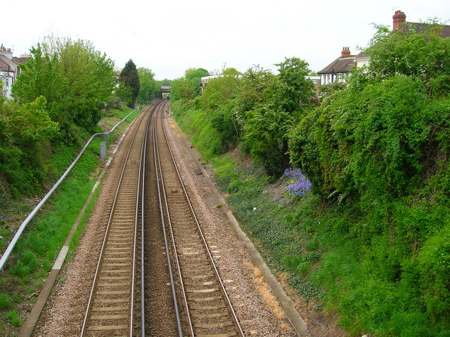 Site of Holland Road Halt. Taken from left hand side of here, 109997 this spot marks the site of the former station which was an intermediate stop between Brighton and Hove. The platforms were wooden and access was down a flight of stairs on each side from Holland Road. The station was closed in 1956 and nothing remains of its existence today. The line is the west coast one which links Brighton to Portsmouth and it is joined by the Cliftonville Spur, a link that enables trains to bypass Brighton Station, just behind the flats to the right. The bridge in the distance is this, 102780 .